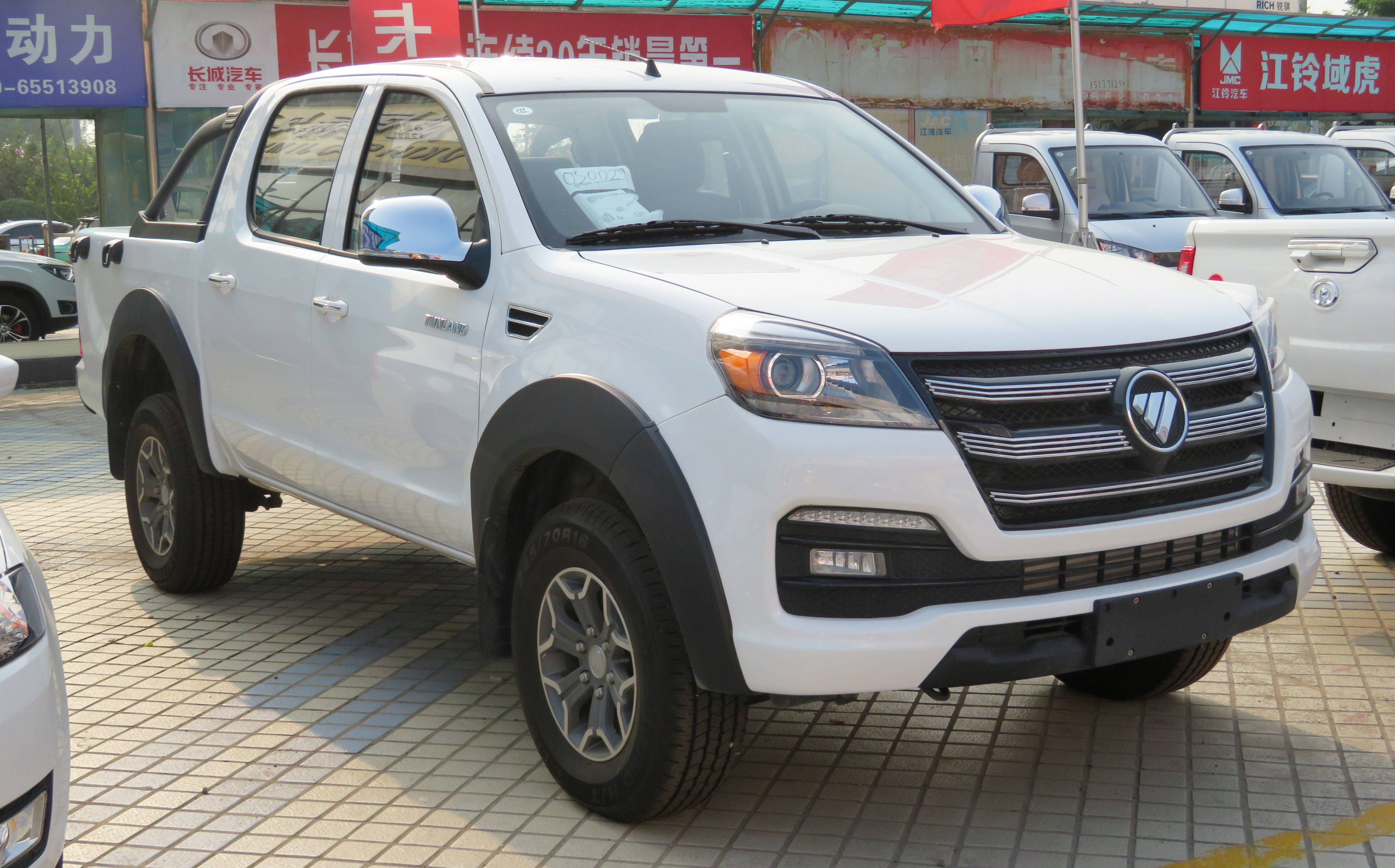 A 2018 Beiqi-Foton Tunland (拓陆者) E5 photographed at a dealership in Luoyang, Henan province, China